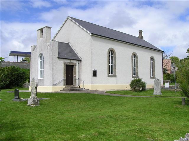 St Crone's Church of Ireland, Dungloe It is in the Parish of Templecrone